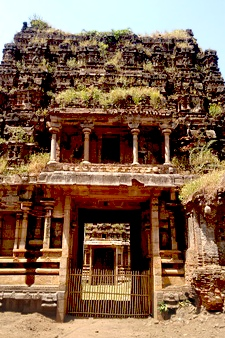 Thukachi abatsahayesvarartemple துக்காச்சி ஆபத்சகாயேஸ்வரர்கோயில்